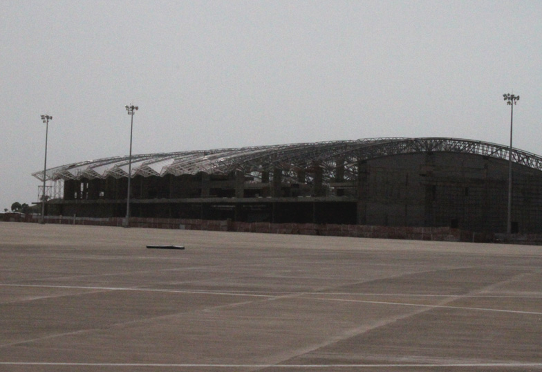 Indore airport new terminal